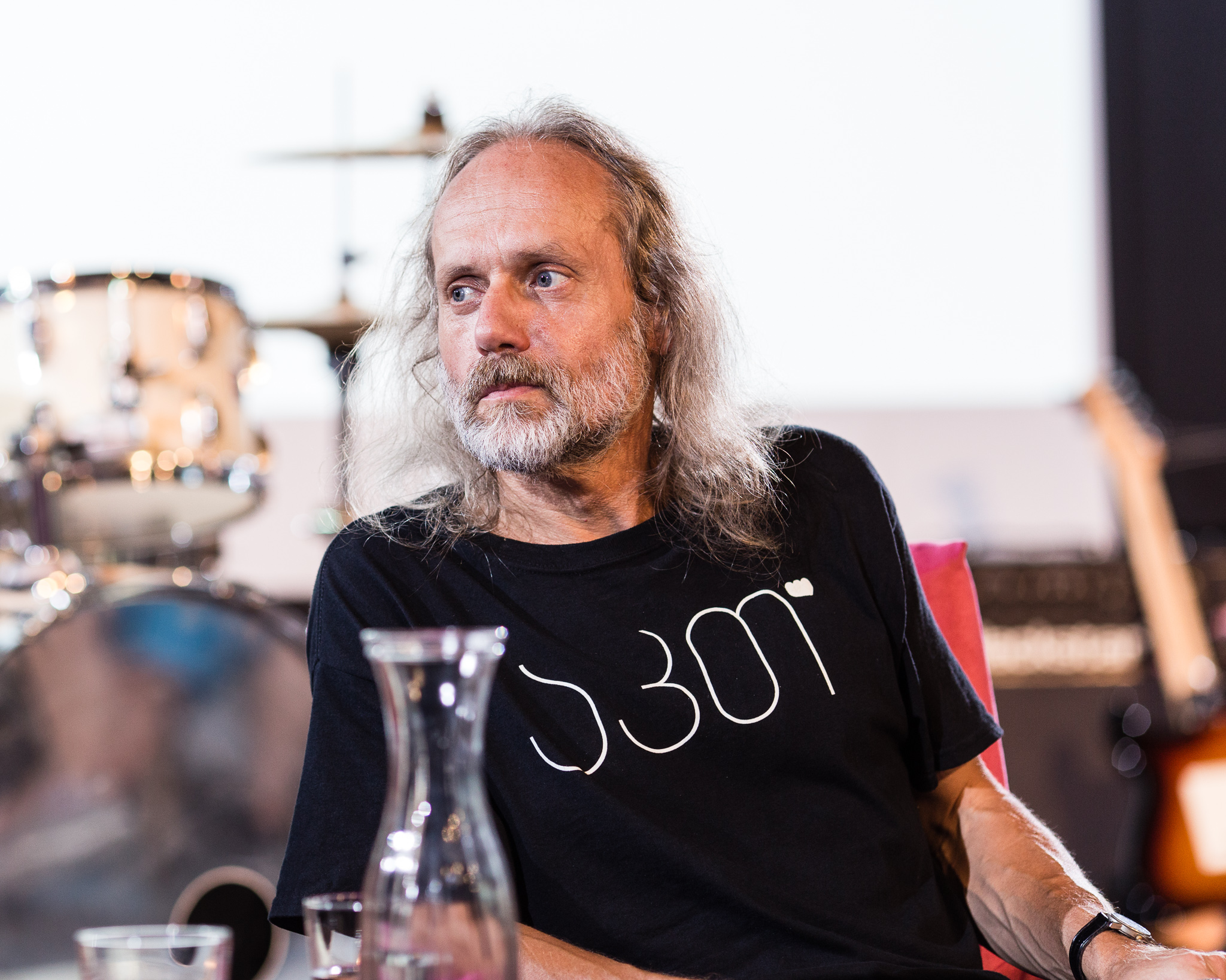 Petr Hruška on Authors’ Reading Month 2017, Wrocław, Poland